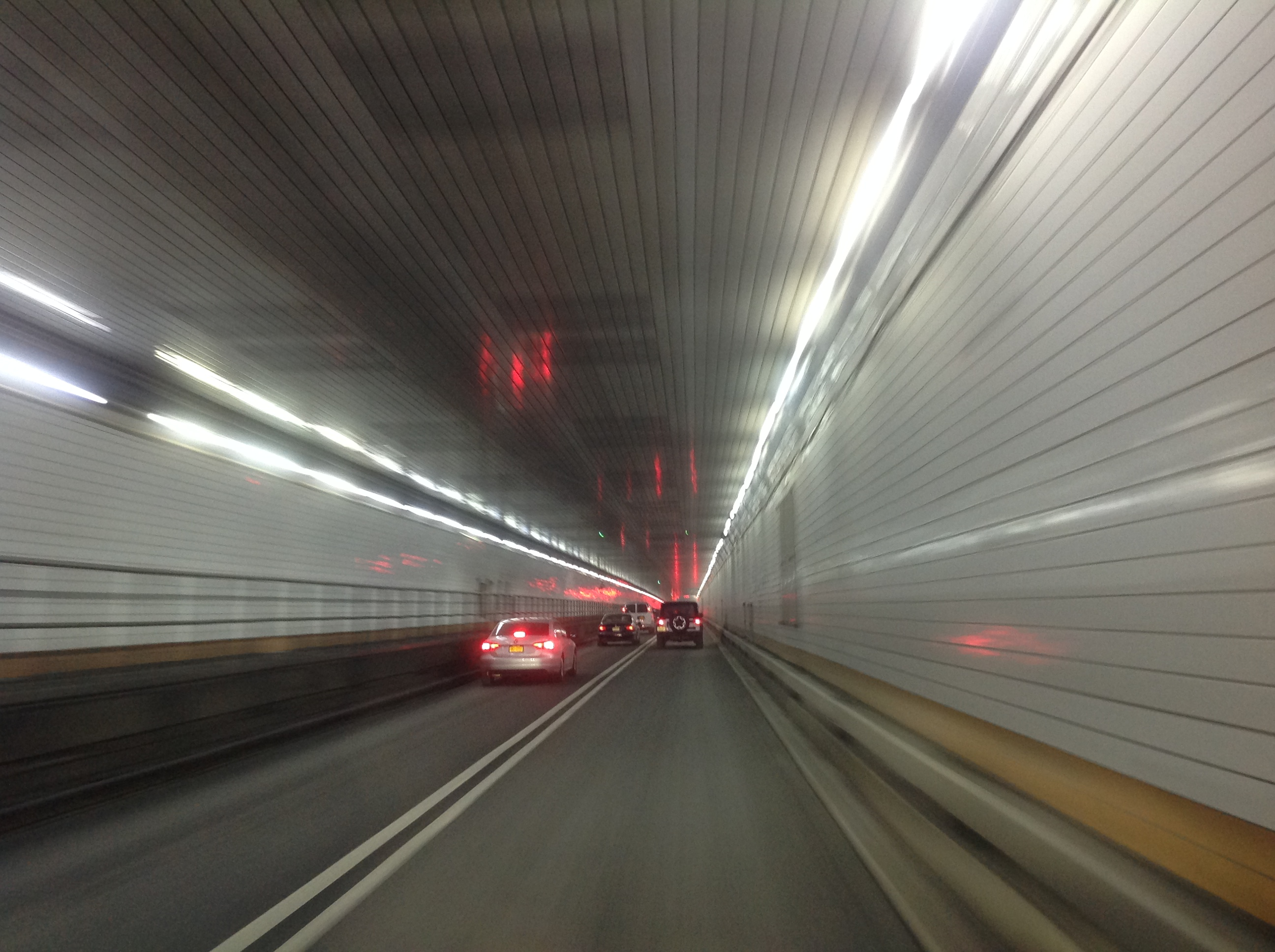 Holland Tunnel going eastbound 12/27/19.